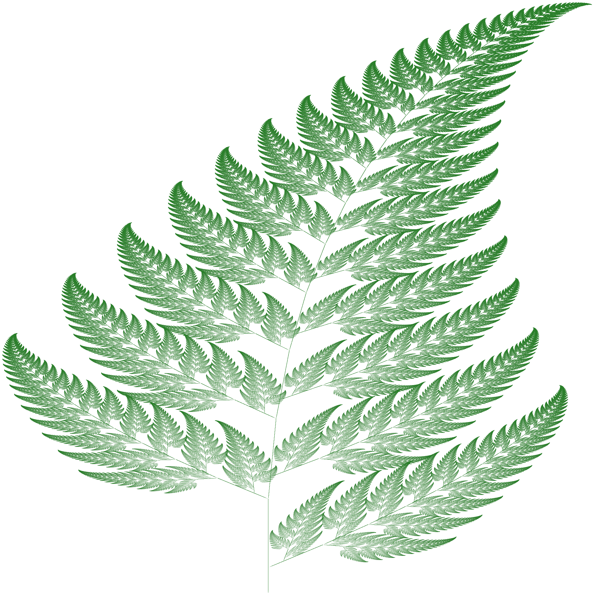 High resolution Barnsley fern created in Processing